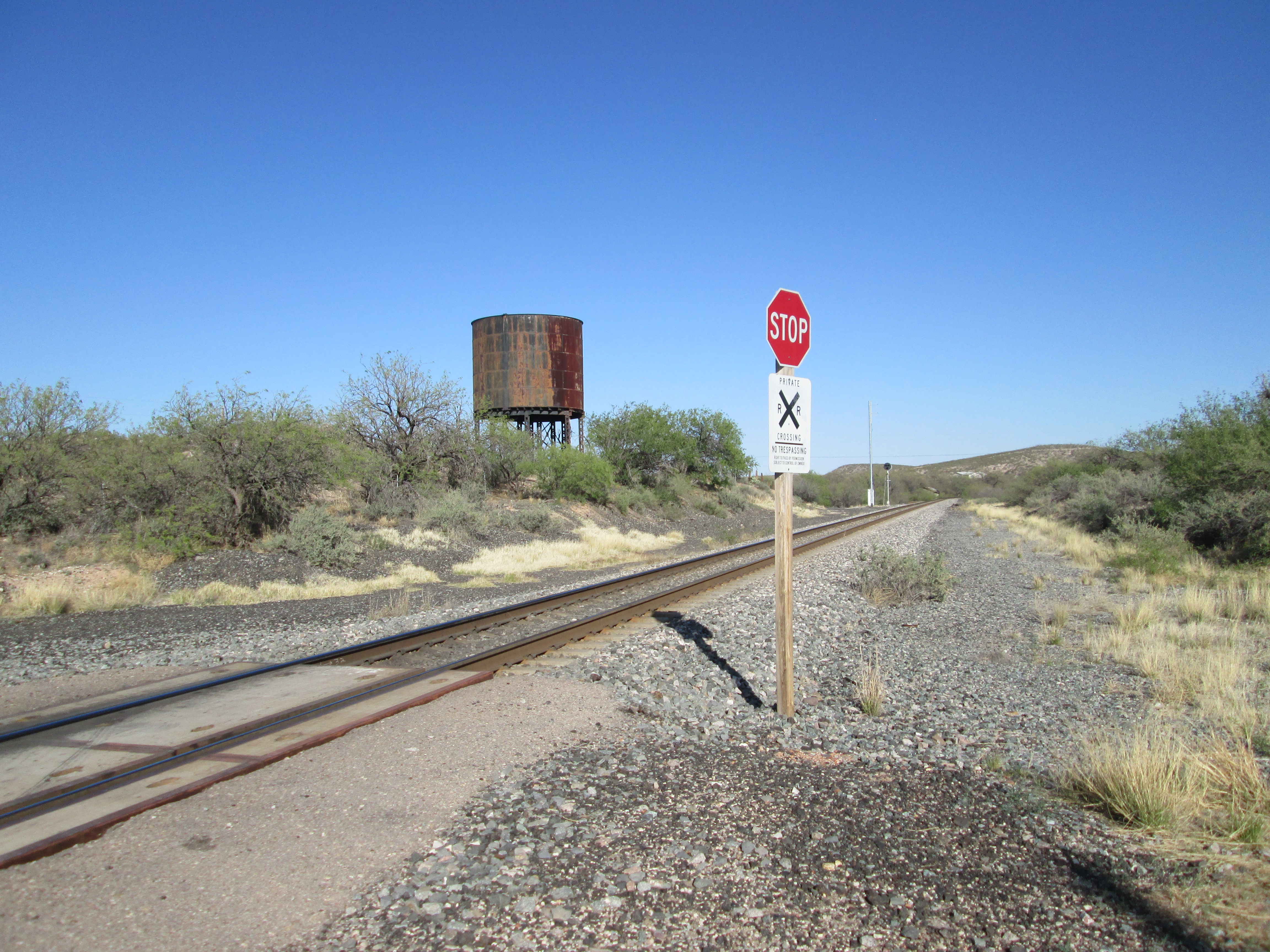 View inside the Pantano Townsite Conservation Area, in Pima County, Arizona, with the town's old railroad crossing at the left, the old water tower and railroad crossing signs in the center, a railroad signal, the old pumphouse along the tracks at the right, and a modern home behind it.